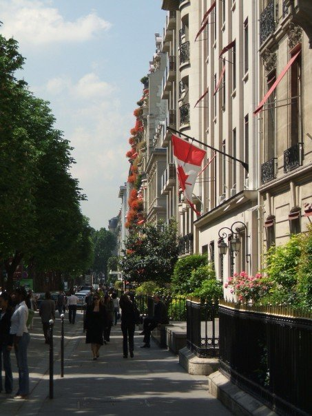 The en::Embassy of Canada in Paris, L'Ambassade du Canada a Paris